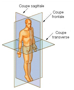 from URL: Nice picture of the planes of human anatomy.